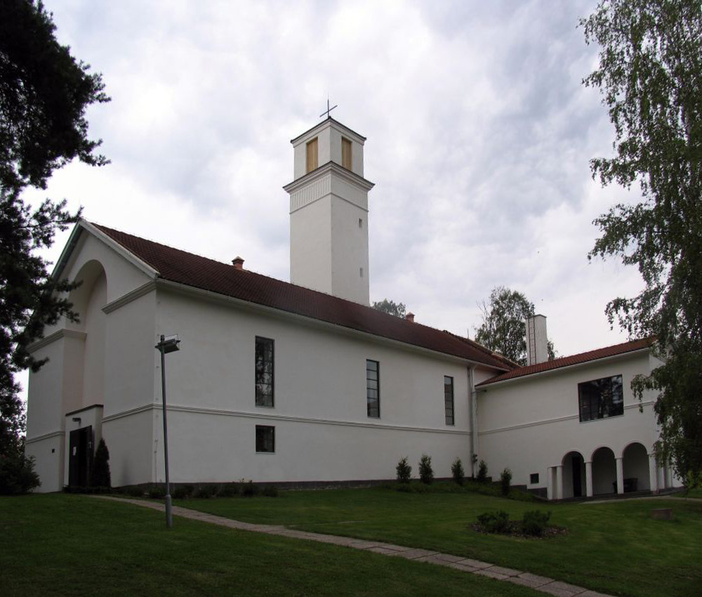 Muurame Church, Muurame, Finland